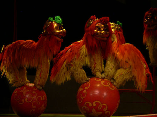 Chinese variety art Acrobats in lion suit doing the ball balancing routine at Chinese New Year 2002 Gala in Chinese theatre.